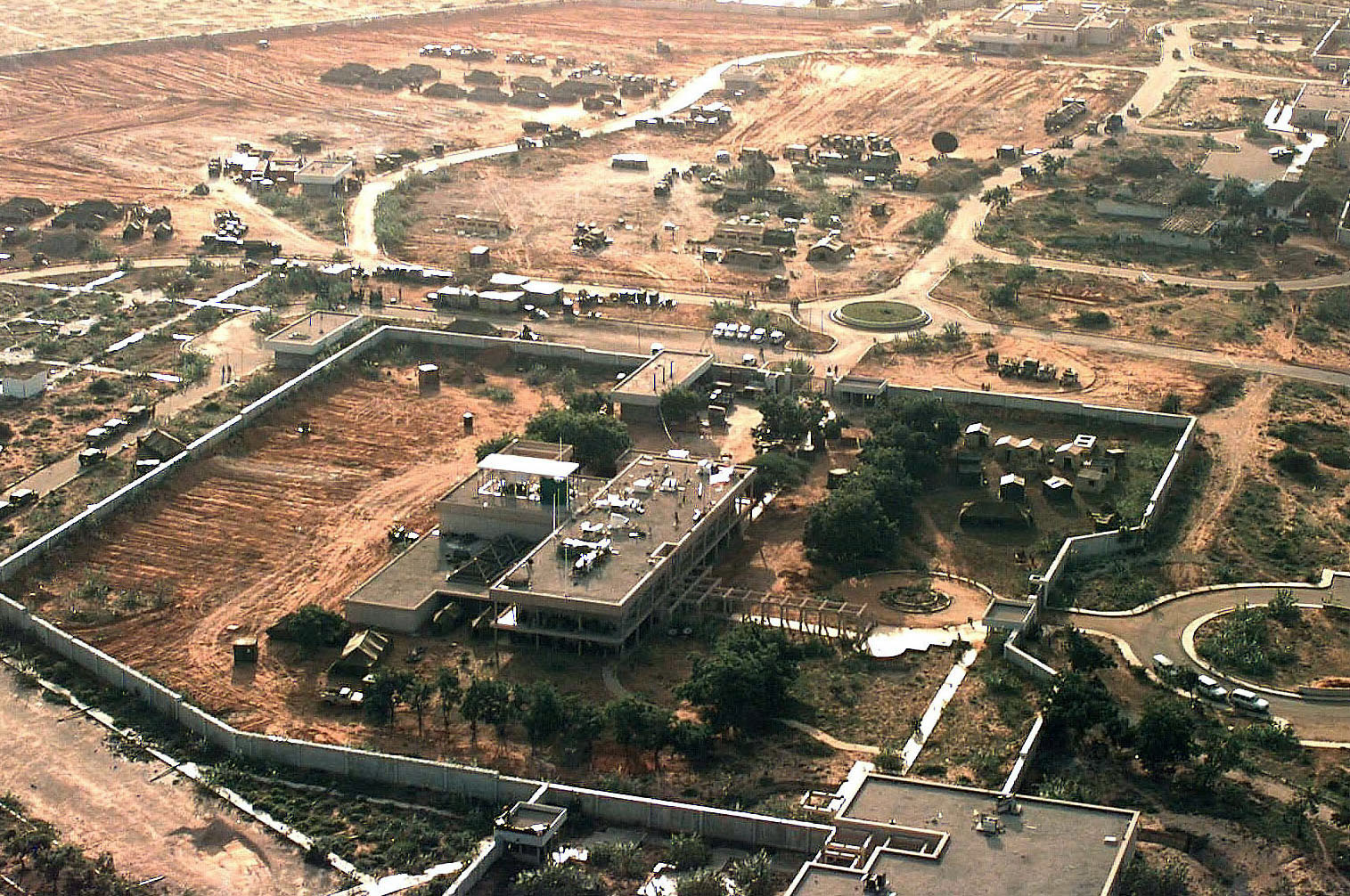 Aerial view of the left side of the US Embassy compound in Mogadishu, Somalia. The Joint Task Force Headquarters for Restore Hope is located there. There are plans to build a tent city on the compound. Several tents and United Nations equipment are located outside the walls of the embassy at the top of the frame. This mission is in direct support of Operation Restore Hope.